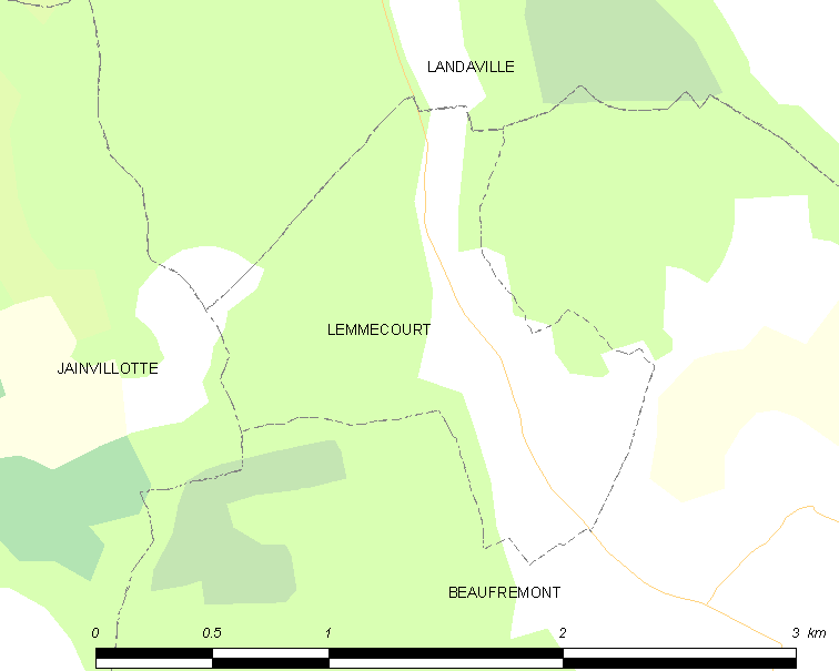 Map of French municipality Lemmecourt